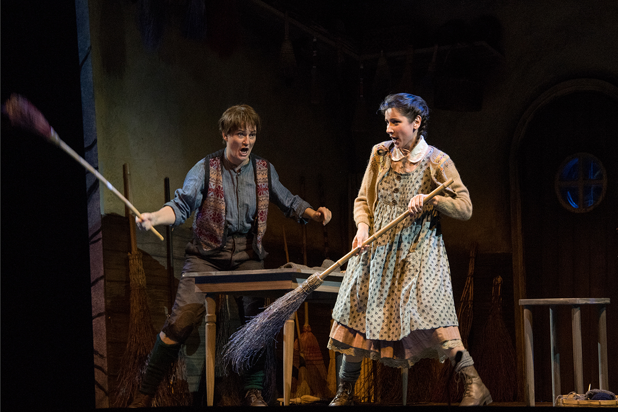 Hänsel und Gretel, Staatsoper Wien 2015, with Daniela Sirdam (Hänsel) and Ileana Tonca (Gretel), director: Adrian Noble, sets and costumes: Anthony Ward, lighting: Jean Kalman, choreography: Denni Sayers, conductor: Christian Thielemann.